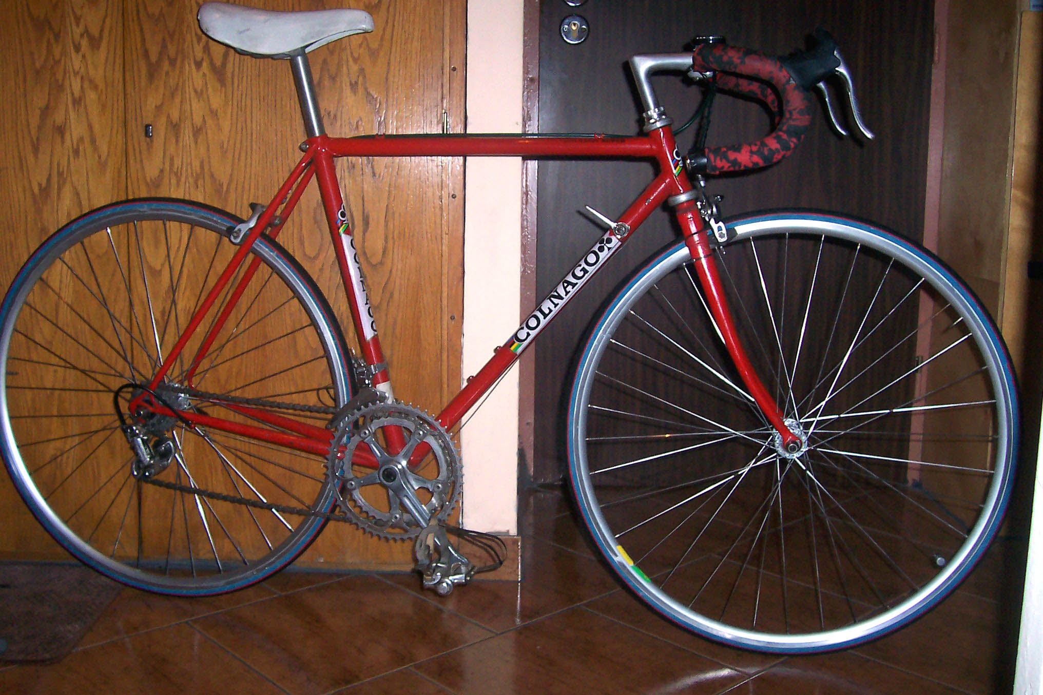 Old Colnago Super Bike